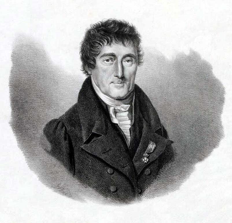 Hermannus Bouman (1789-1864) Dutch theologian and orientalist